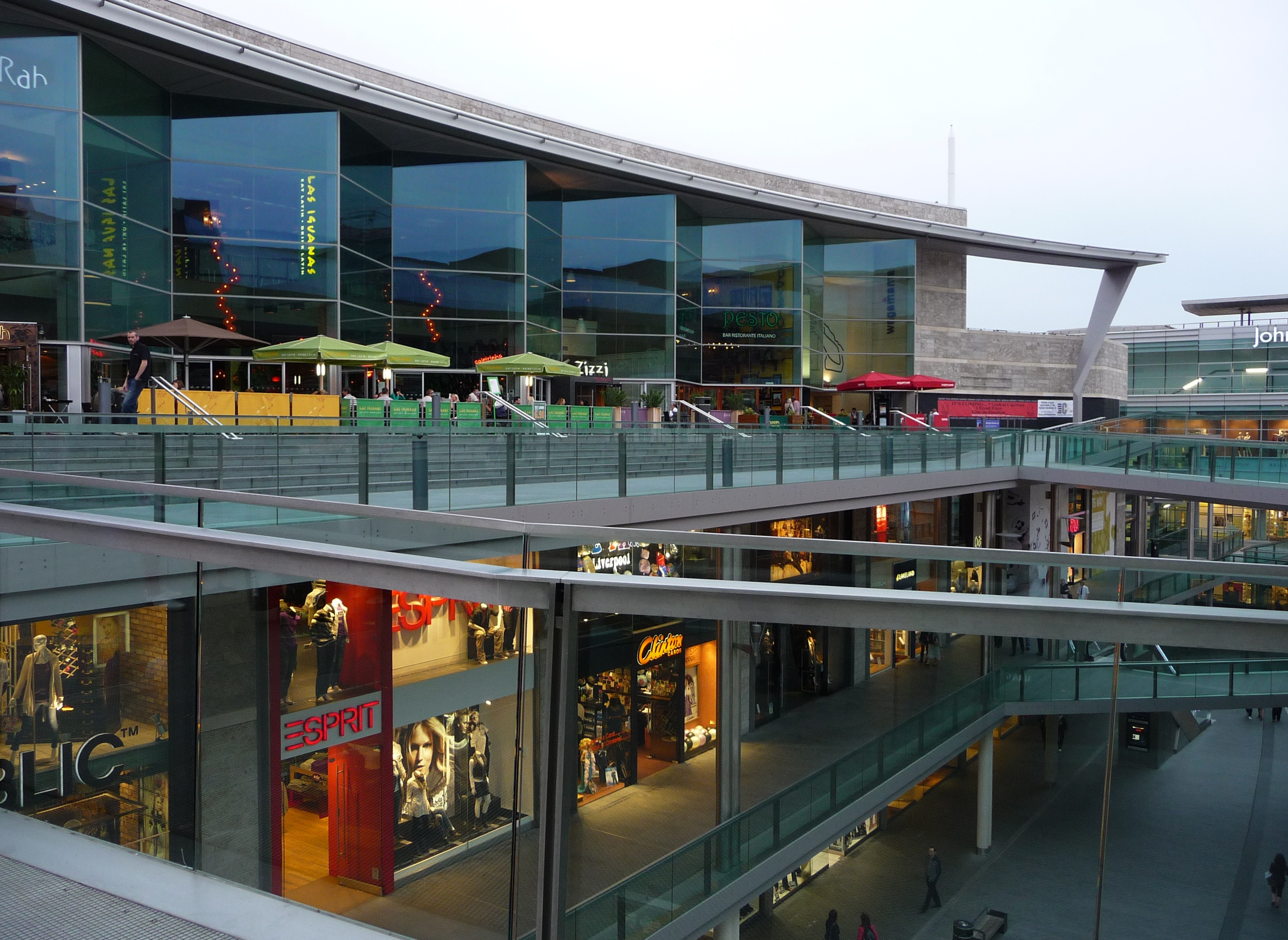 Leisure Terrace, Liverpool ONE, Liverpool, England.